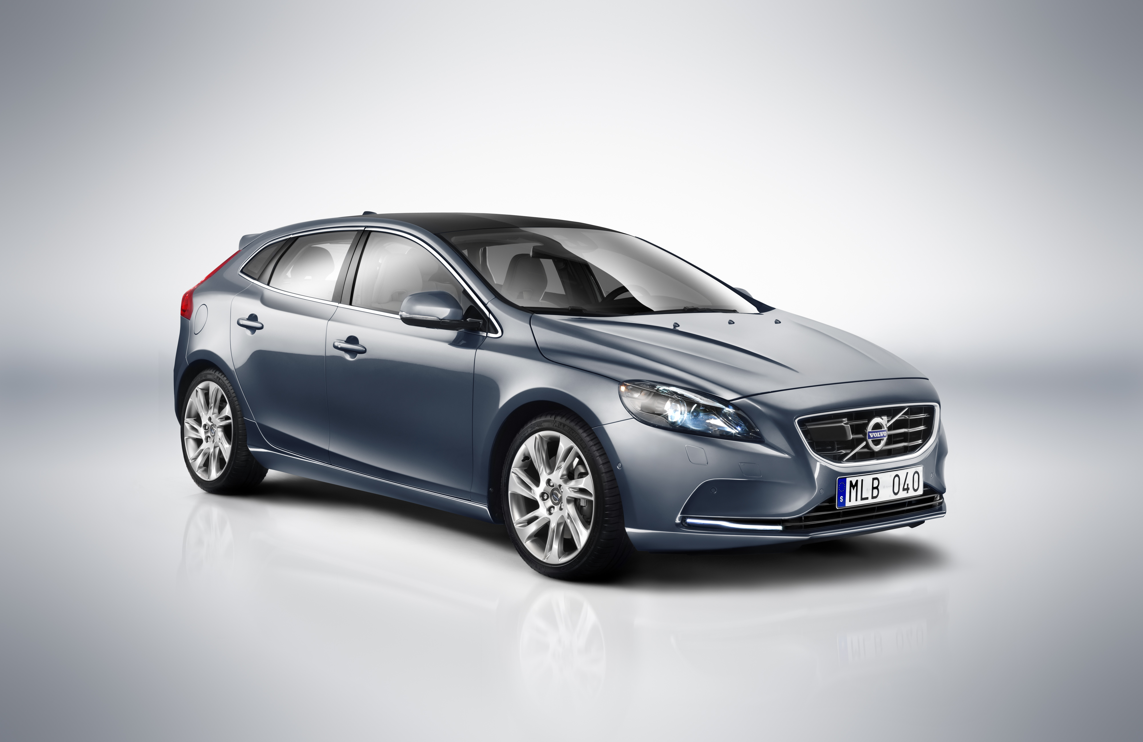 Volvo V40 version 2012